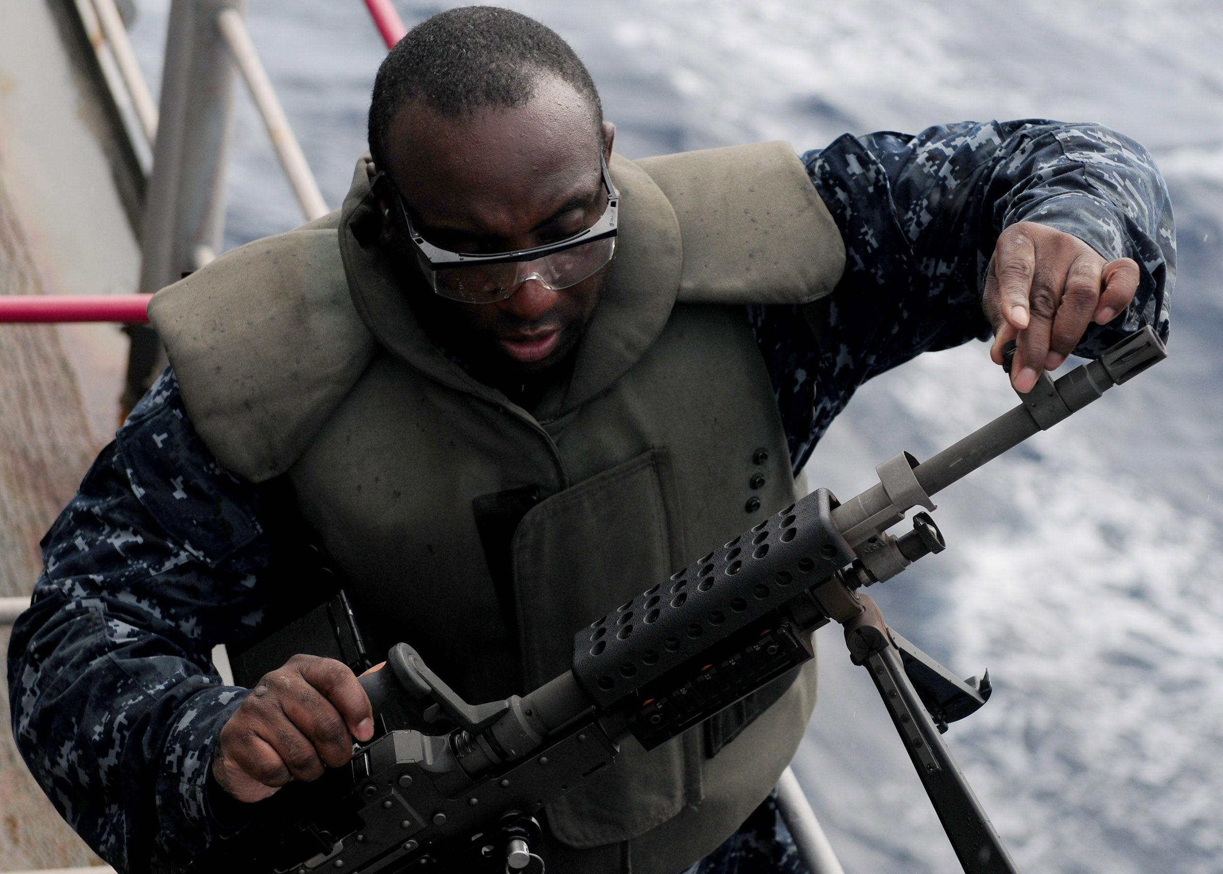 SOUTH CHINA SEA (Oct. 28, 2010) Aviation Ordnanceman 1st Class Justin L. McCray replaces the barrel of a M-240B machine gun during a live-fire exercise aboard the forward-deployed amphibious assault ship USS Essex (LHD 2). Essex is part of the forward-deployed Essex Amphibious Ready Group and is underway in the western Pacific Ocean. (U.S. Navy photo by Mass Communication Specialist 3rd Class Casey H. Kyhl/Released)